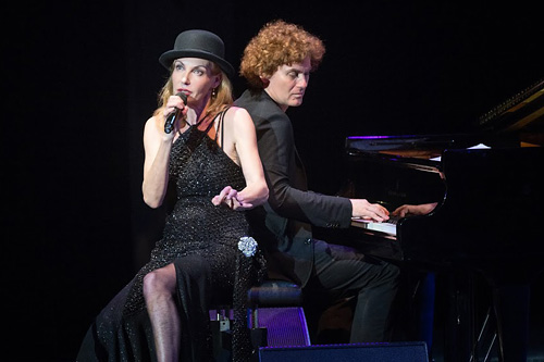 Ute Lemper at her performance at the Kurt Weill Festival .